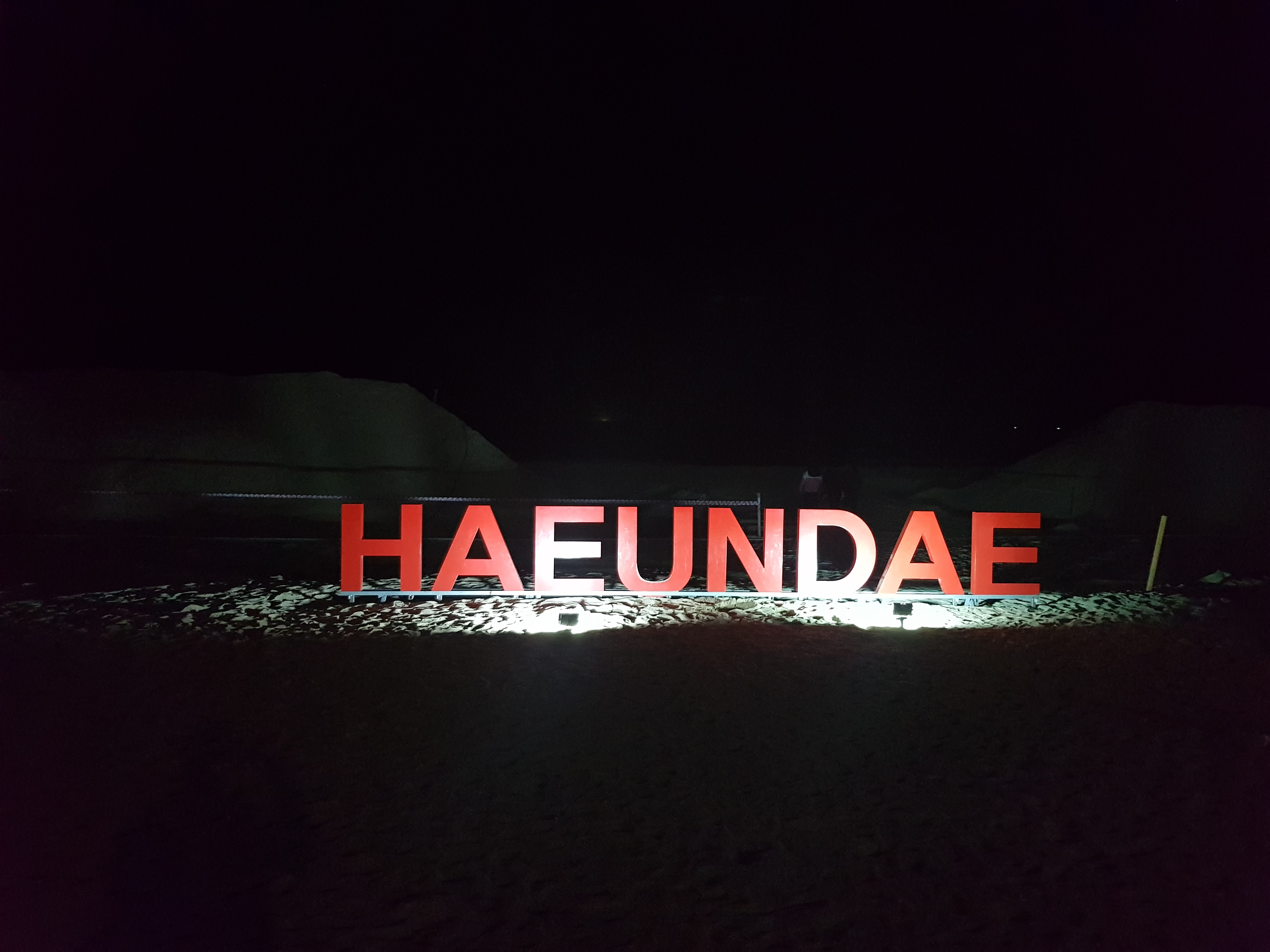 Logo of Haeundae on the beach